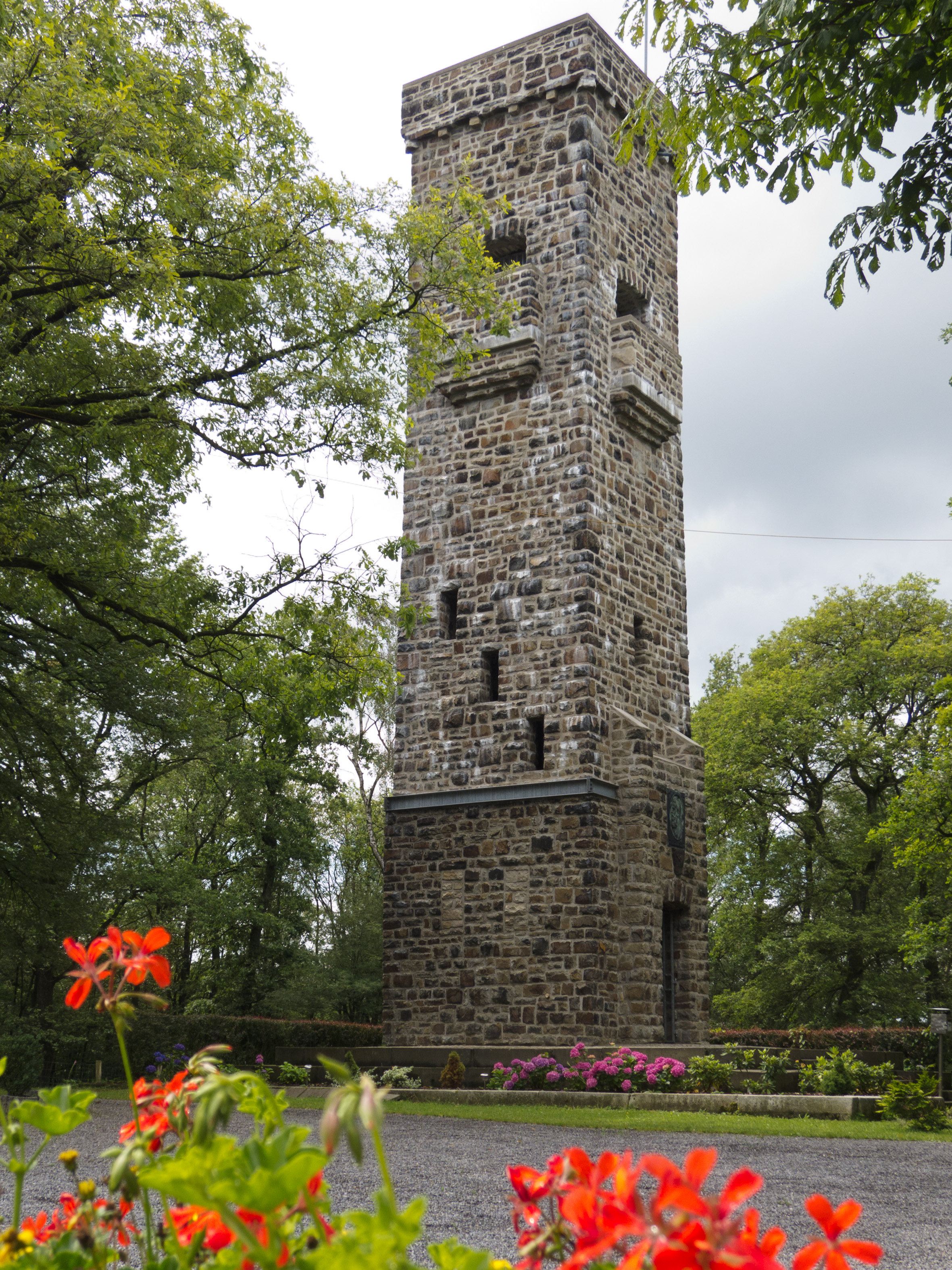 Kaiser-Friedrich-Turm in Hagen